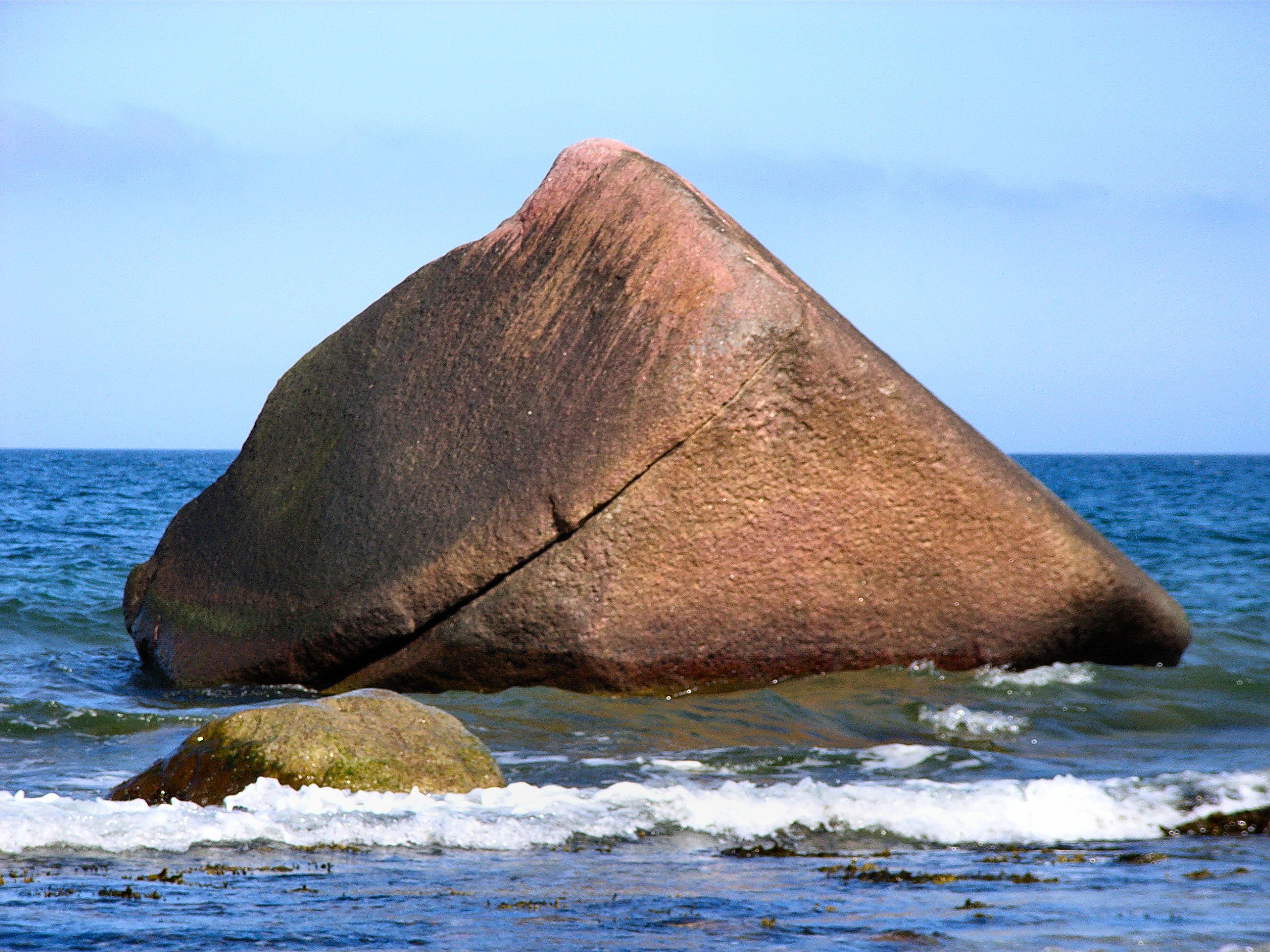 Swanstone near Lohme on island Rügen